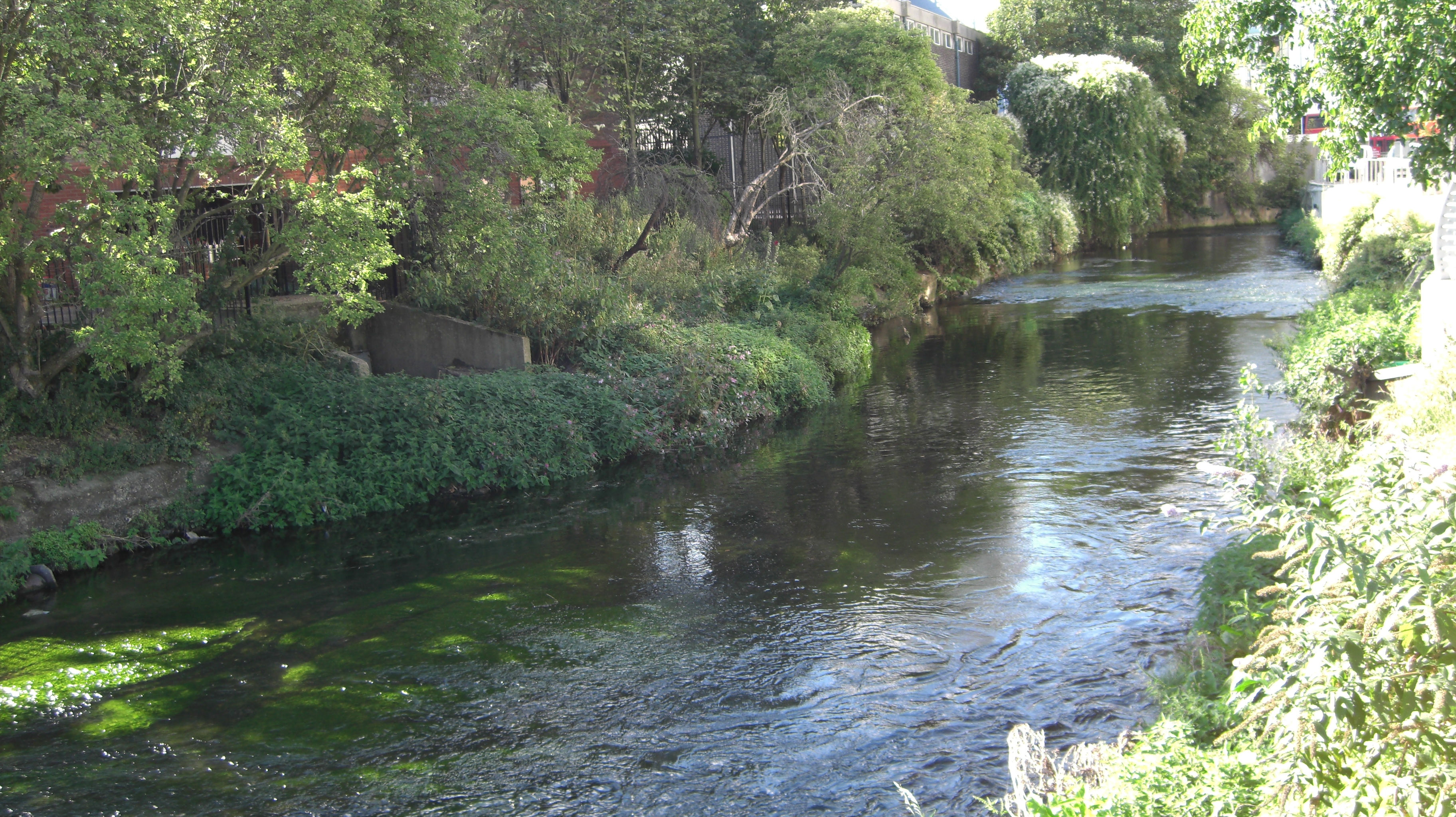 River Wandle in Wandsworth Town Centre